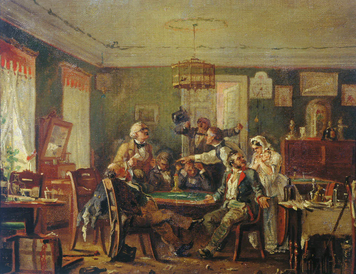 Nikolay Petrovich Petrov (1834-1876) Сard game